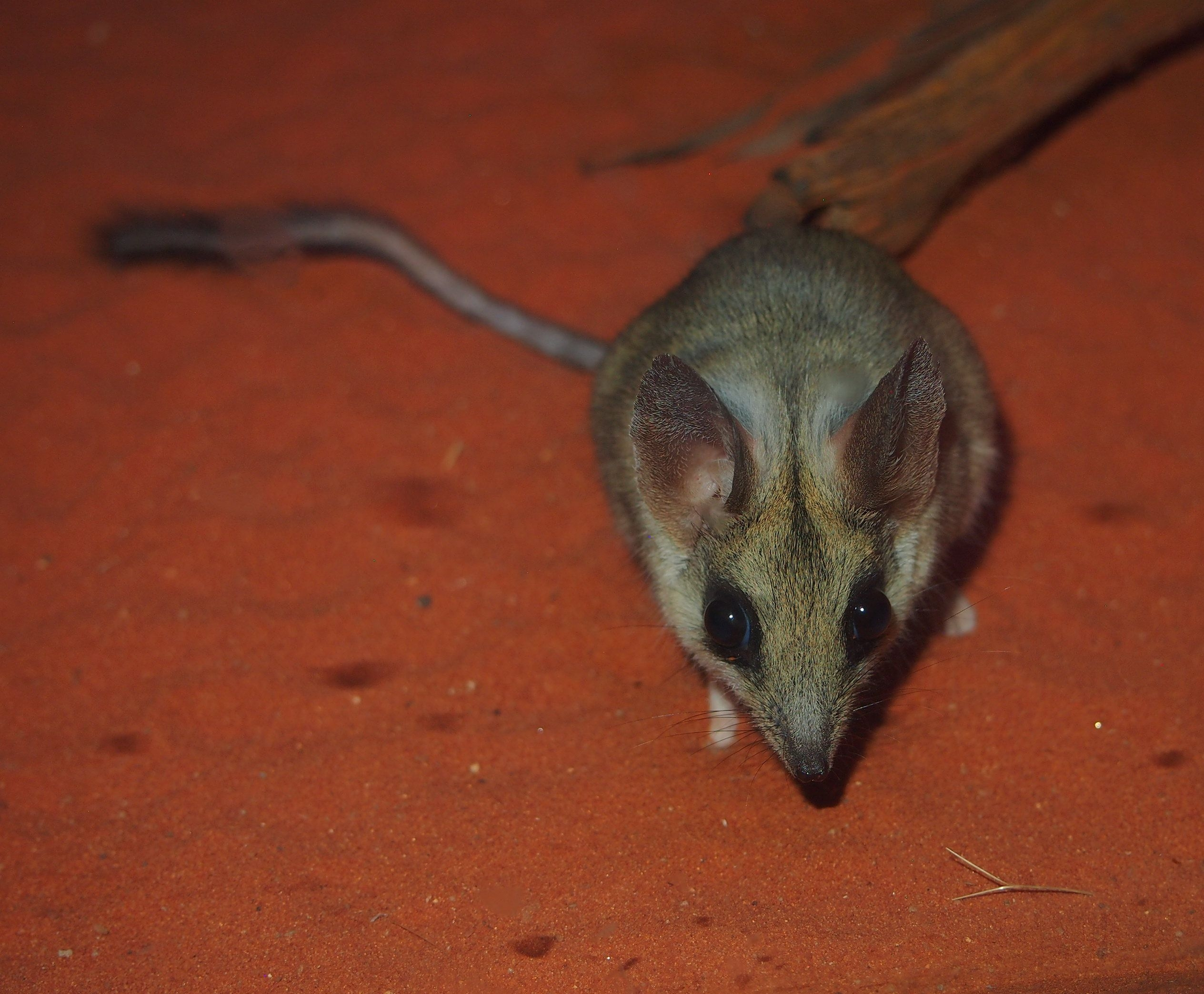 Antechinomys laniger, Alice Springs Desert Park